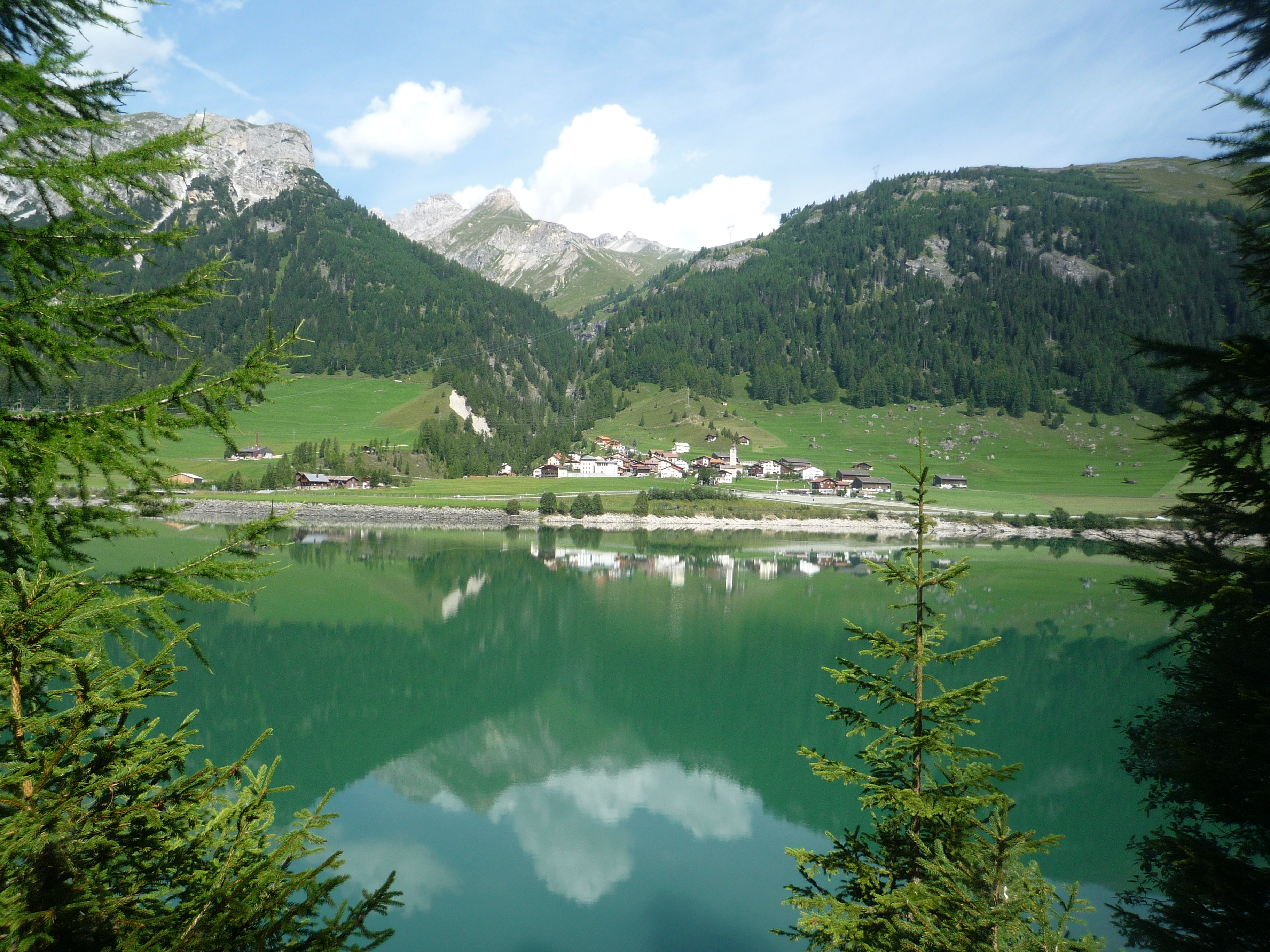 Sufers, Graubunden, Switzerland